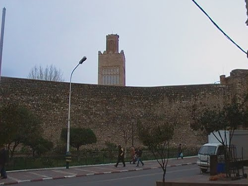 zianid palace in algeria (middle age)